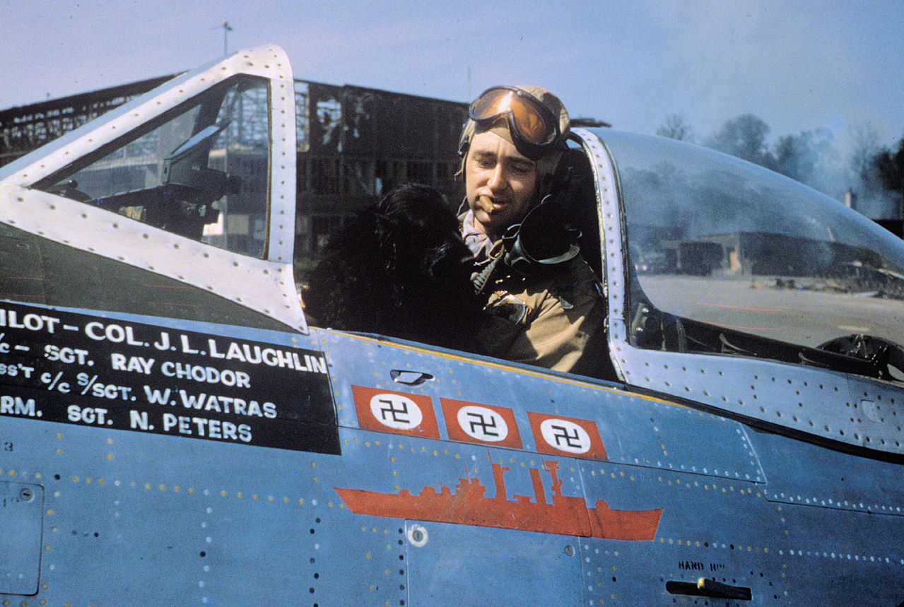 Colonel J.L. Laughlin, of the 362nd Fighter Group, smokes a cigar with his dog mascot "Prince" inside the cockpit of his P-47D serial 44-33287 "Five By Five" (coded B8-A). Image via Chuck Mann. Written on slide casing: 'Col Jos Laughlin, Gp CO and "Prince", note- German Cruiser. 362 FG